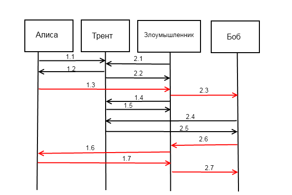 The attack on the Needham-Schroeder protocol for public key authentication